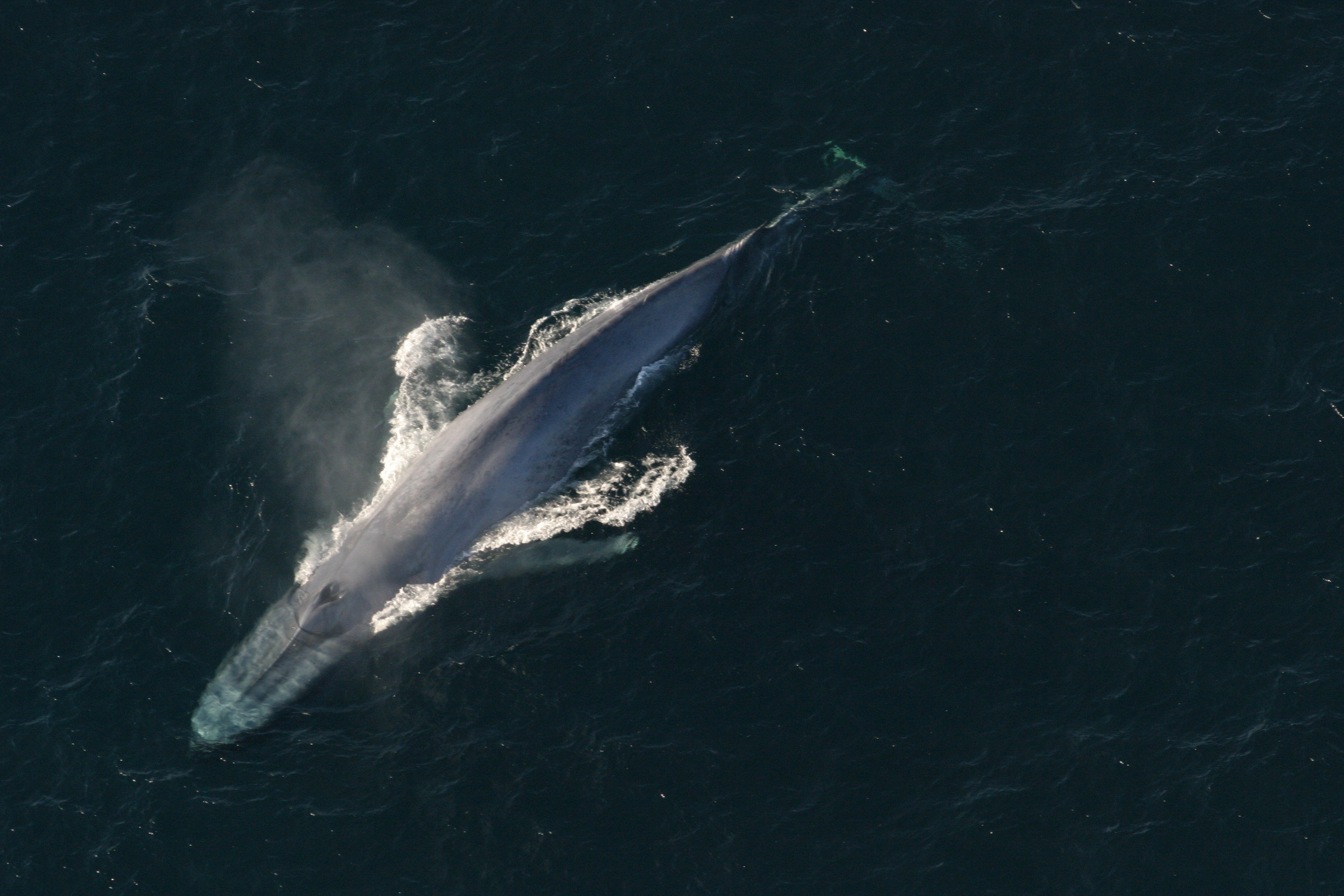 Blue whale.